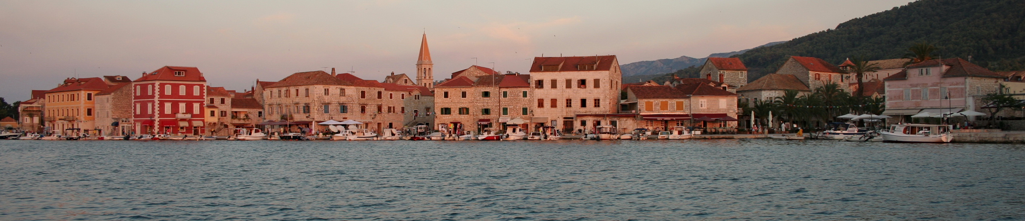 Panoramic view of Stari Grad